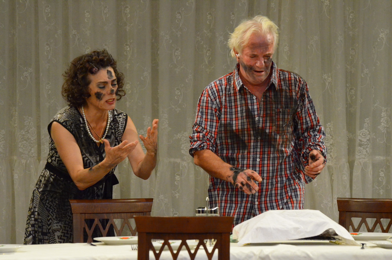 "Burlesque Tragedy" by Dušan Kovačević; directed by Maja Grgić; Drama of the Serbian National Theatre, Novi Sad, 2011/12; Aleksandra Pleskonjić, Miodrag Petrović Srpski (latinica): "Urnebesna tragedija" Dušana Kovačevića u režiji Maje Grgić, Drama Srpskog narodnog pozorišta, Novi Sad, 2011/12; Aleksandra Pleskonjić, Miodrag Petrović Српски (ћирилица): "Урнебесна трагедија" Душана Ковачевића у режији Маје Гргић, Драма Српског народног позоришта, Нови Сад, 2011/12; Александра Плескоњић, Миодраг Петровић